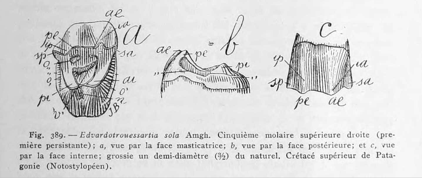 Edvardotrouessartia molar teeth illustrated by Ameghino